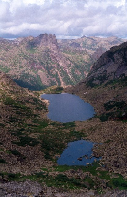 Siberia, Western Sayan, Ergaki, Lake Gornyh Duhov